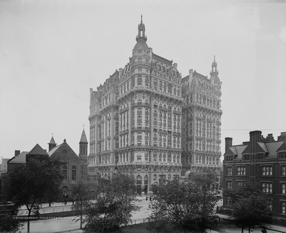 The Ansonia Hotel on Broadway at the intersection with Amsterdam Avenue, New York.